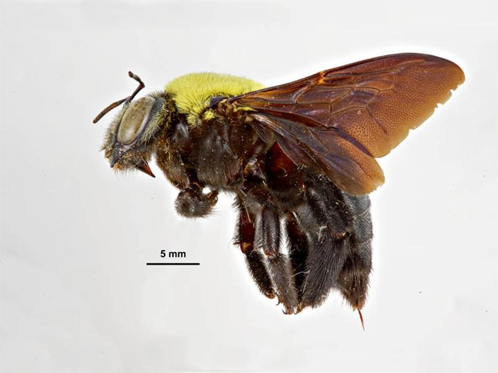 Xylocopa waterhousei female